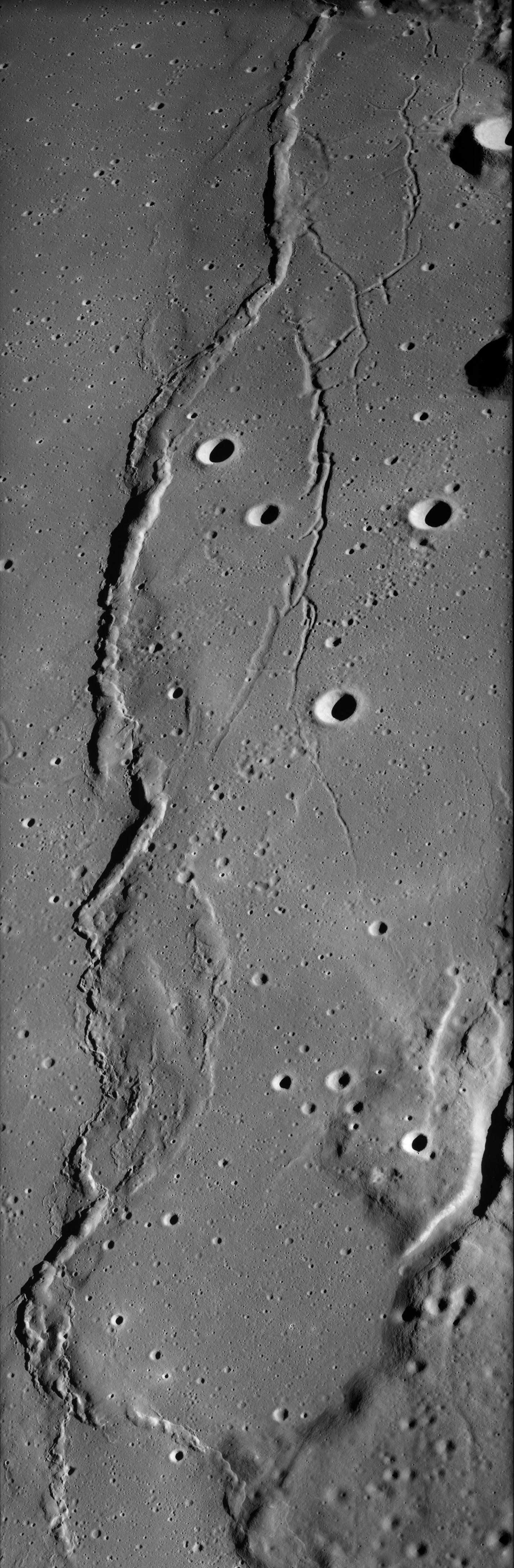 Oblique view of Dorsa Aldrovandi, Mare Serenitatis, facing north.